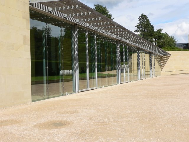 Underground Gallery, YSP